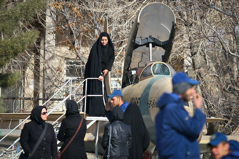 Iranian Air Force exhibition